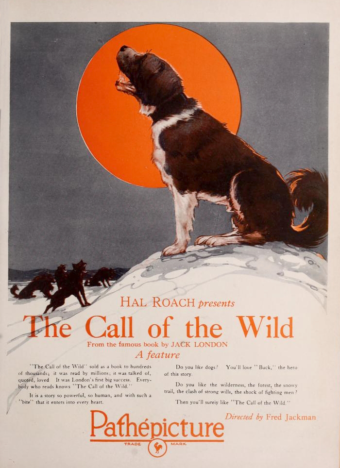 Advertisement for the American drama film The Call of the Wild (1923) in Motion Picture News. Other information Located on page 1205